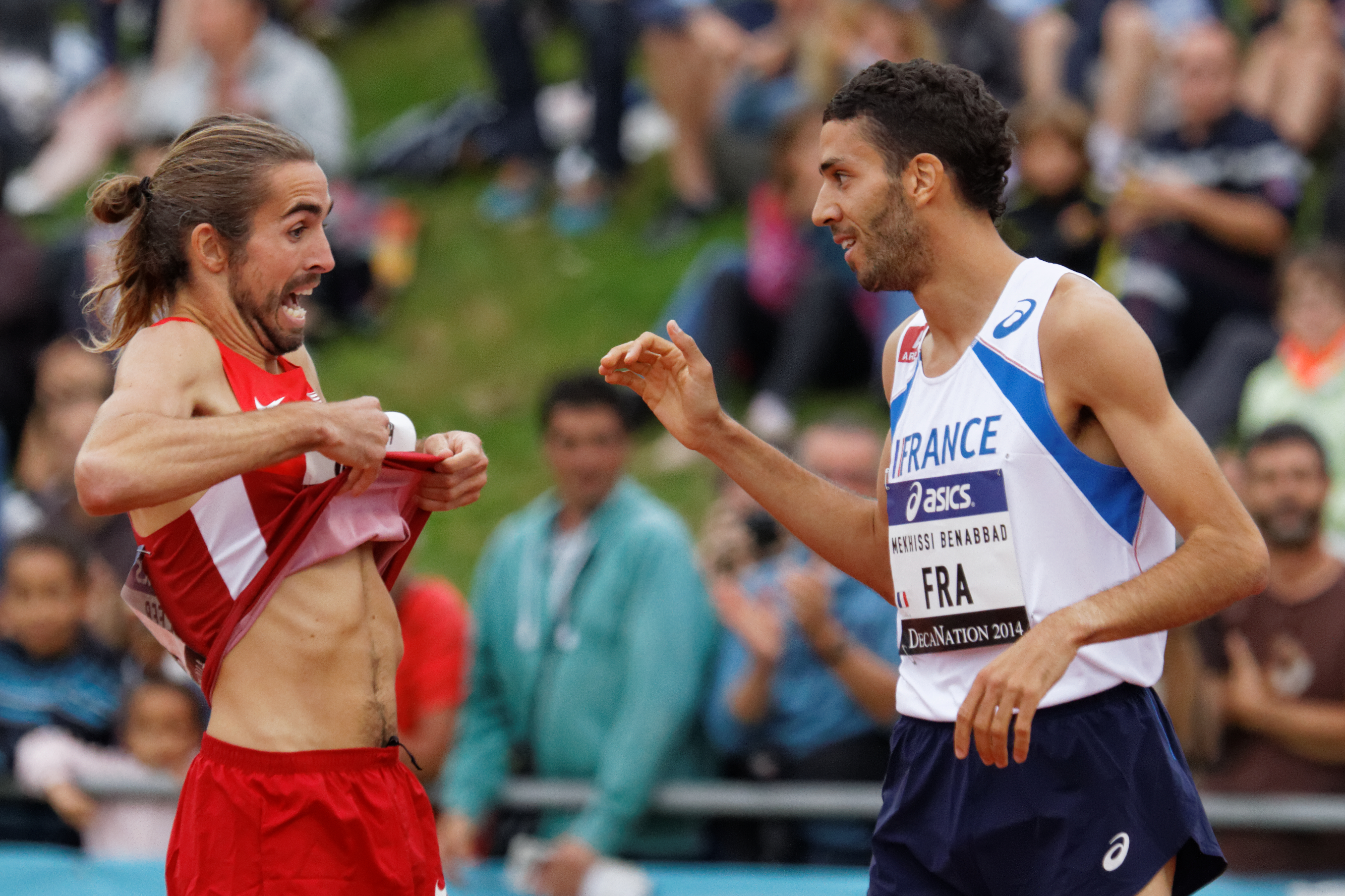 At the DécaNation 2014 in the 1500m, American athlete Will Leer pulled off his vest as Mahiedine Mekhissi-Benabbad – disqualified at the recent European Championships for doing the same thing - outsprinted him last weekend.